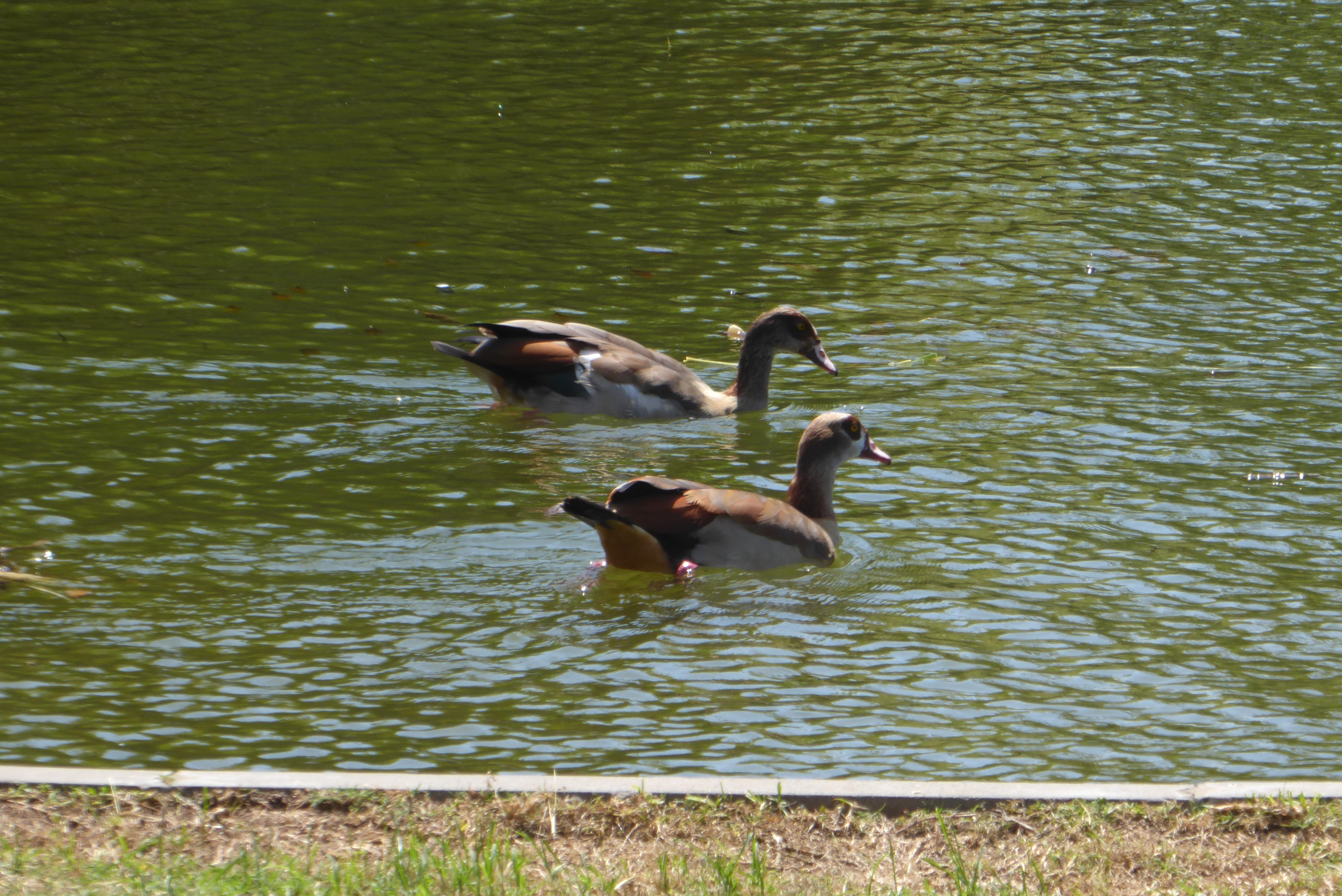 Edith Wolfson Park